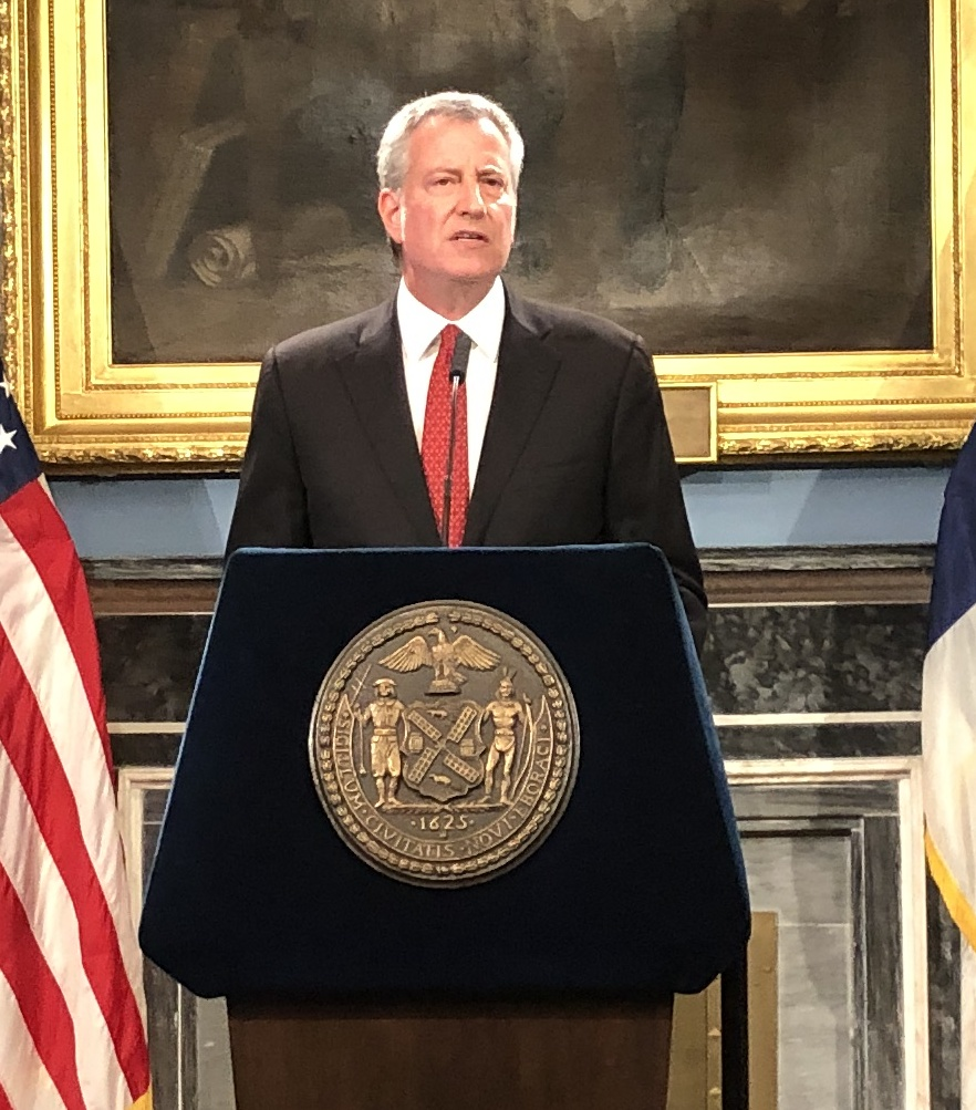 Bill de Blasio during a press conference on August 2, 2019, in the Blue Room at City Hall, New York City.